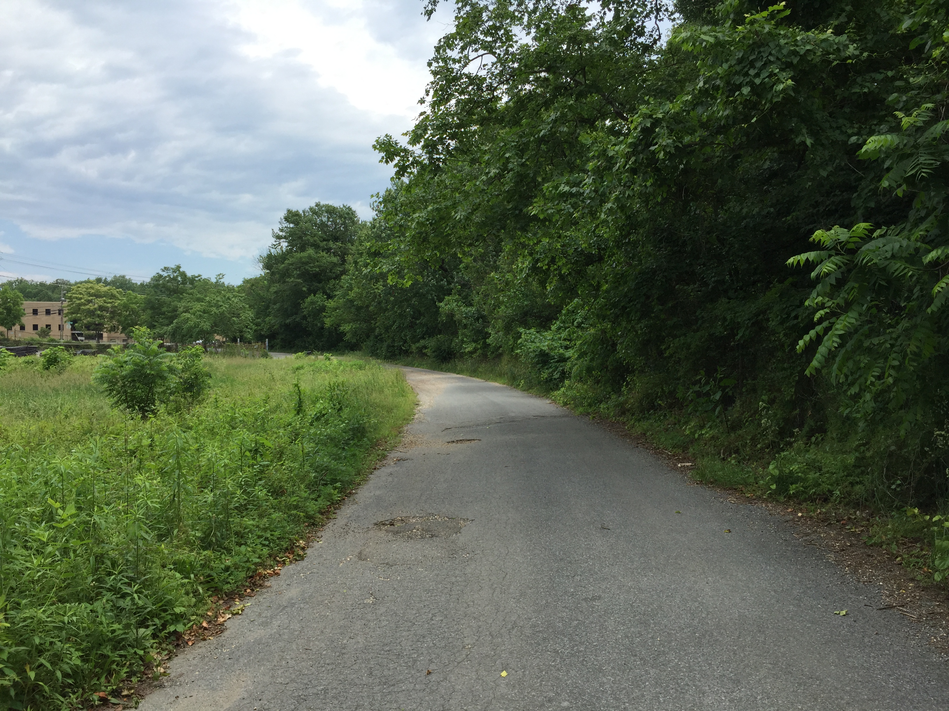 View north at the south end of Maryland State Route 694 (Agricultural Farm Road) in Beltsville, Prince George's County, Maryland